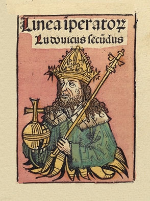 This is a part of a scan of an historical document: Title: Schedelsche Weltchronik or Nuremberg Chronicle